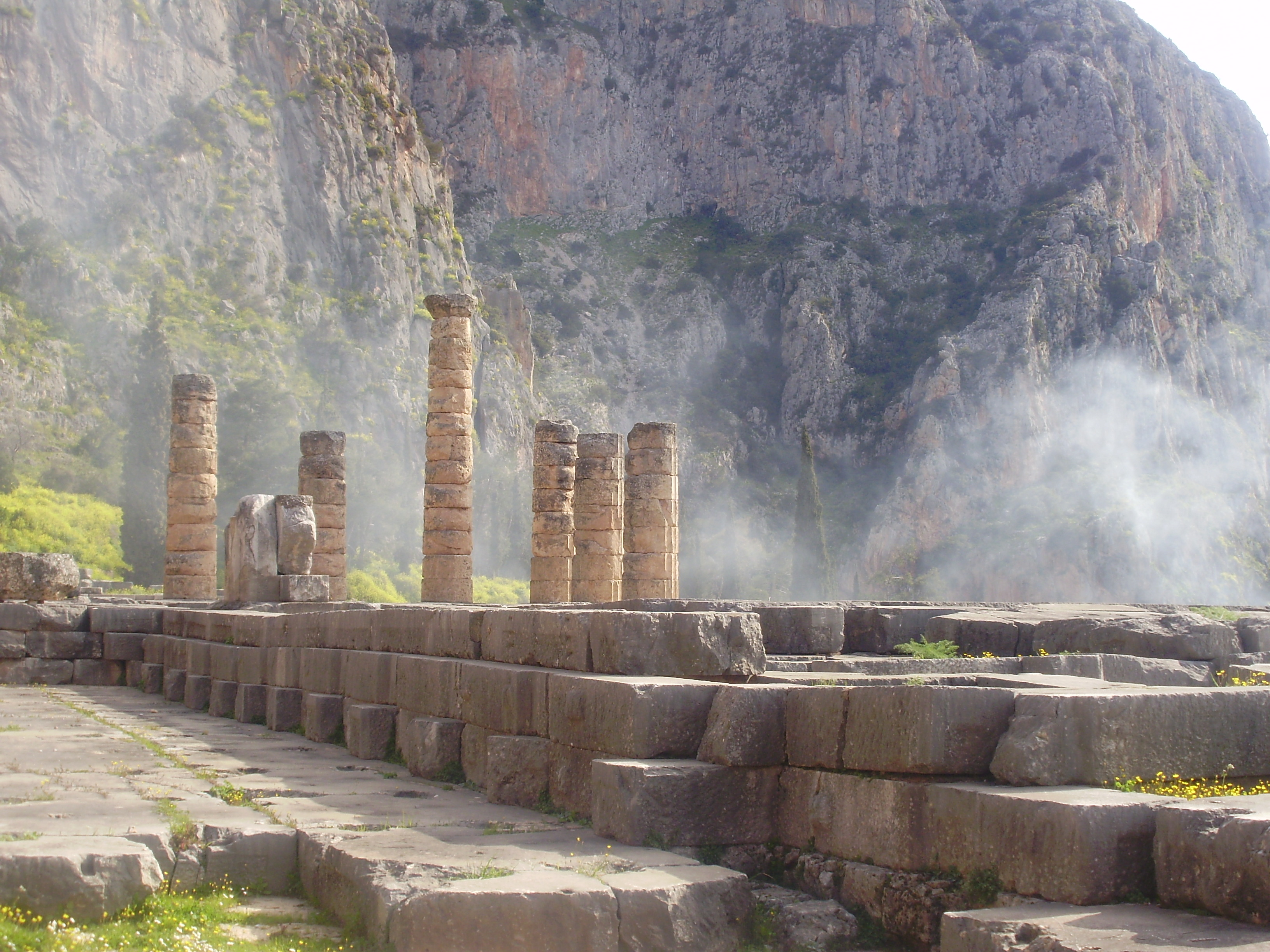 Detail from Archaeological Site of Delphi, Greece